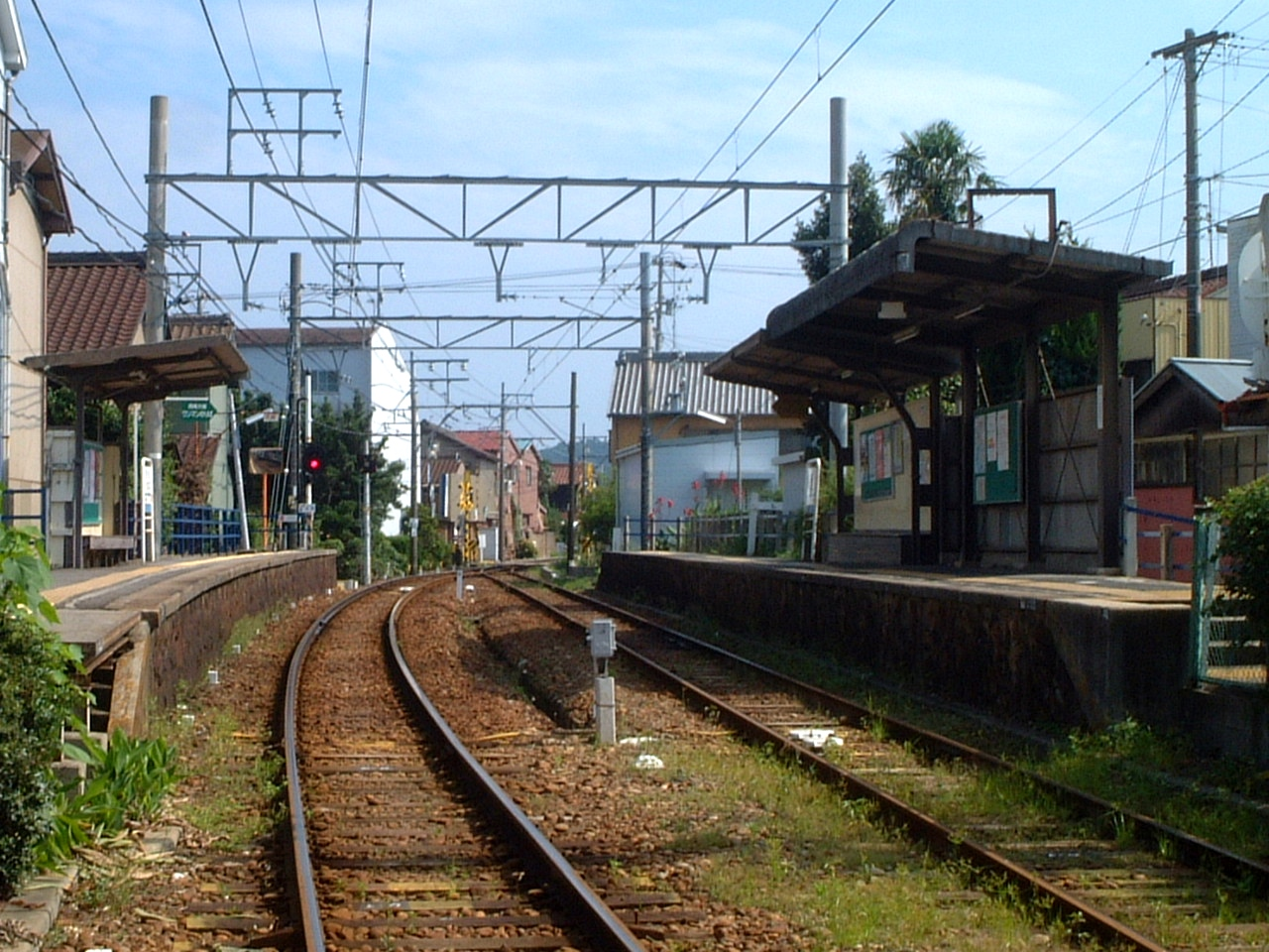 Nagoya Railroad Gamagōri Line Katahara Station Platform